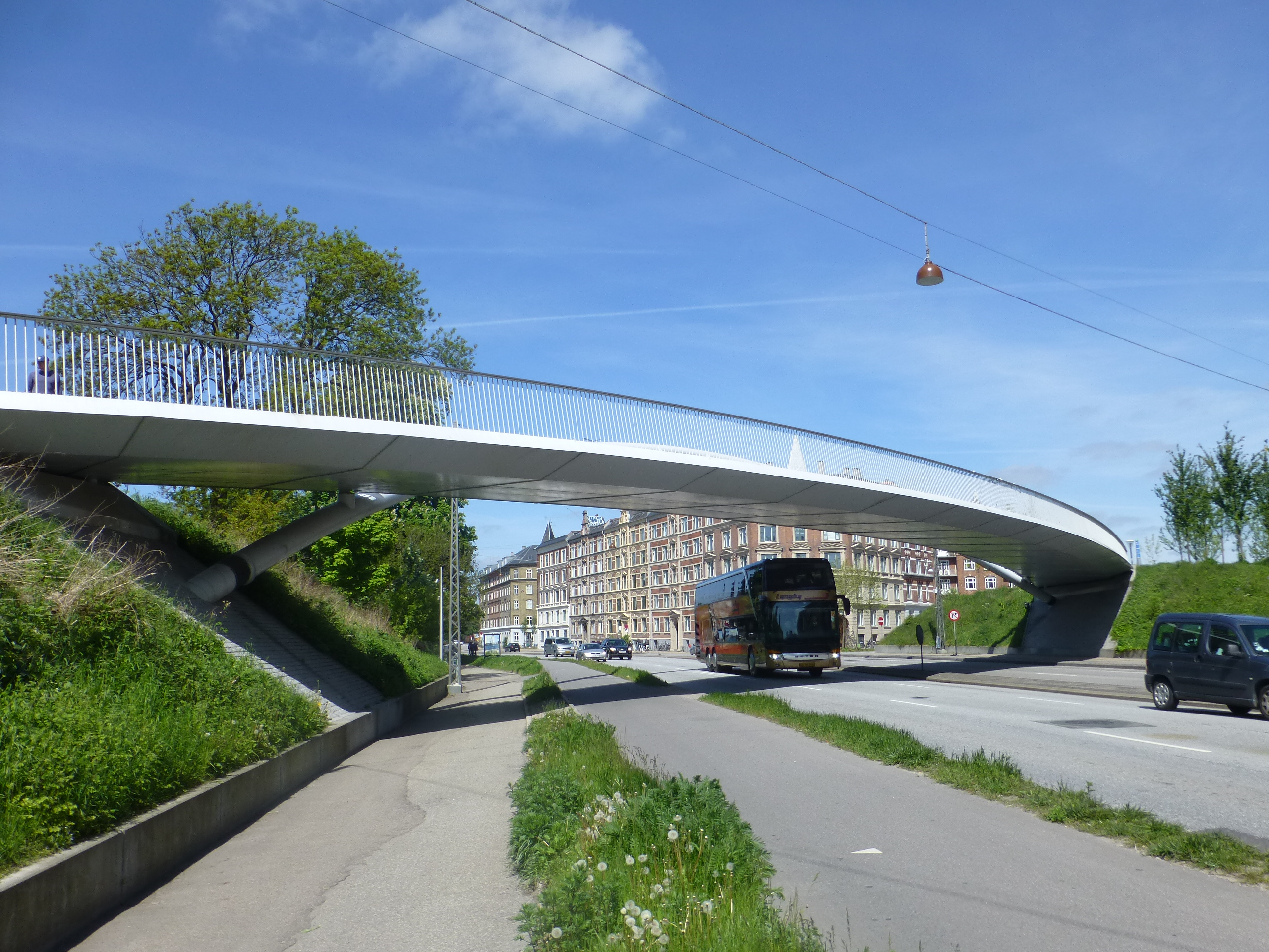 The pedestrian and bikeway bridge Åbuen over Ågade in Copenhagen.